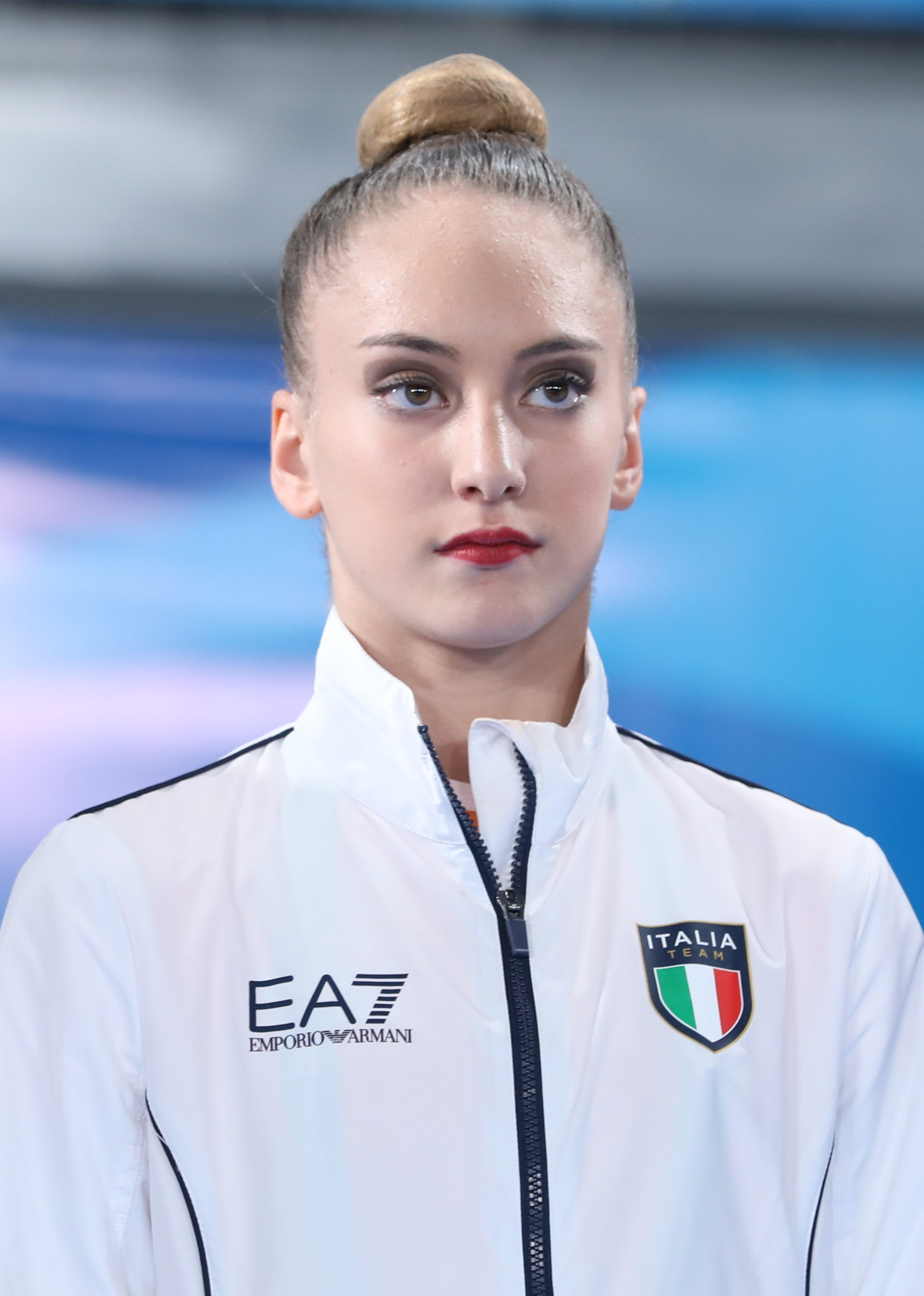 Gymnastics mixed multi-discipline team competition: Victory ceremony